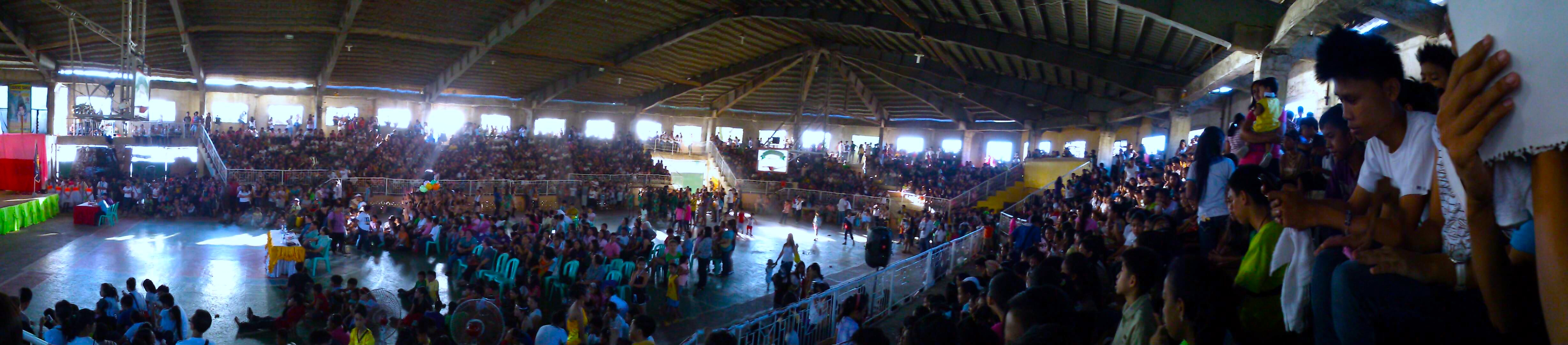 Inside Jose Panganiban's Social Center